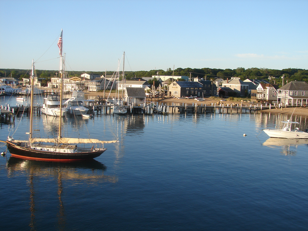 Martha's Vineyard, Massachusetts, USA